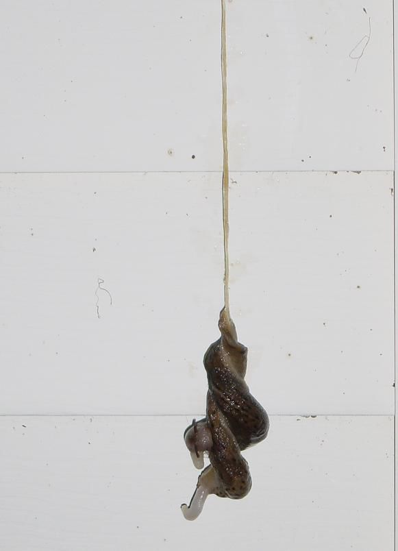 Two slugs Limax maximus mating on the side of my house. They're hanging by a substance excreted by one or both of them during the process.